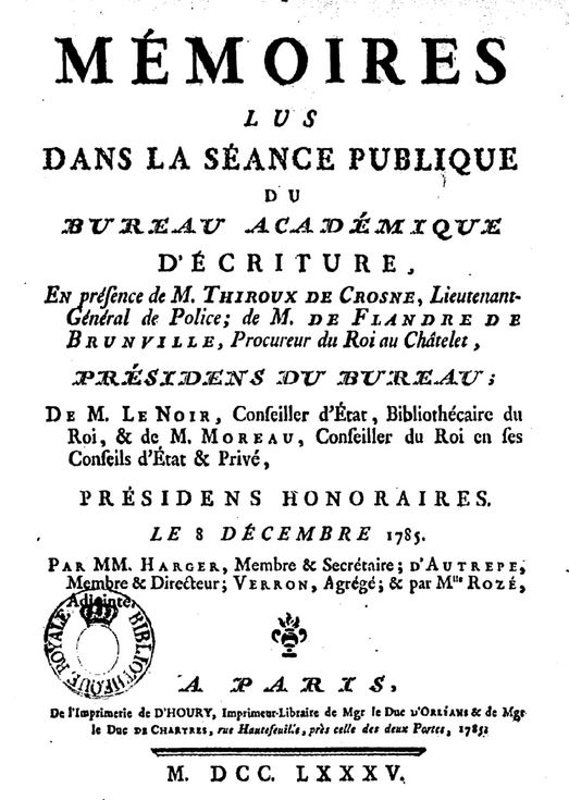 Title page of the 1785 issue of the Mémoires of the 'Bureau académique d'écriture' (Paeis BNF)